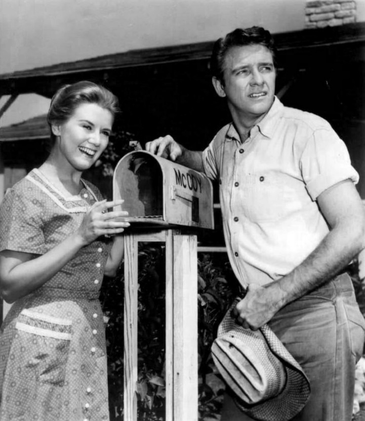 Photo of Kathleen Nolan and Richard Crenna as Kate and Luke McCoy from the television program The Real McCoys.